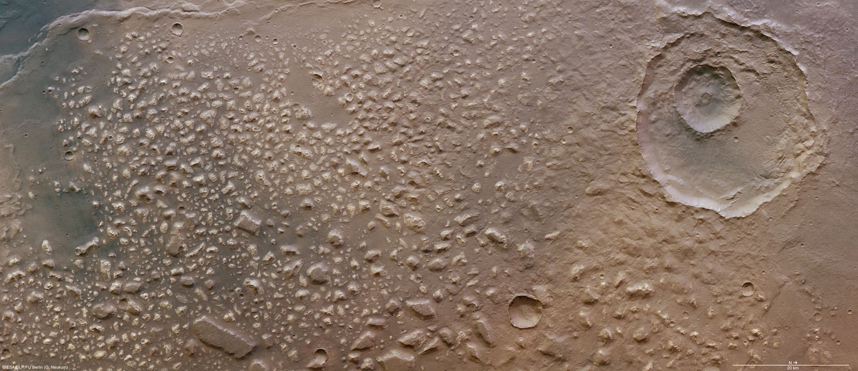 Ariadnes Colles on Mars imaged by the HRSC instrument aboard Mars Express.